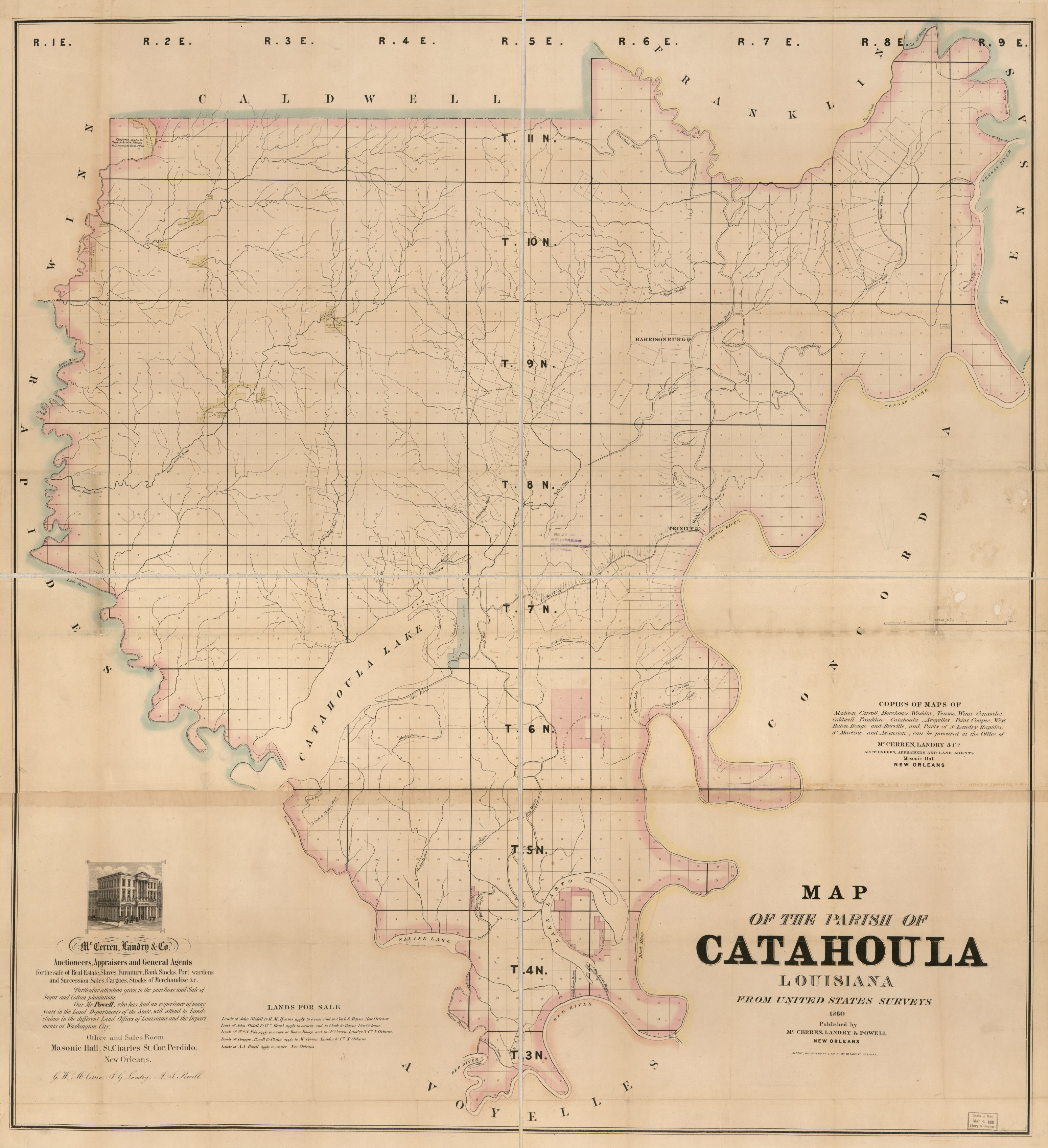 Shows names of some residents. Copy imperfect: Mounted on cloth back, stained throughout and folded in half. Stamped on lower right: Division of Maps, May 4, 1931 Library of Congress. Includes text, list of lands for sale and ill. LC Land ownership maps, 247 Available also through the Library of Congress Web site as a raster image.